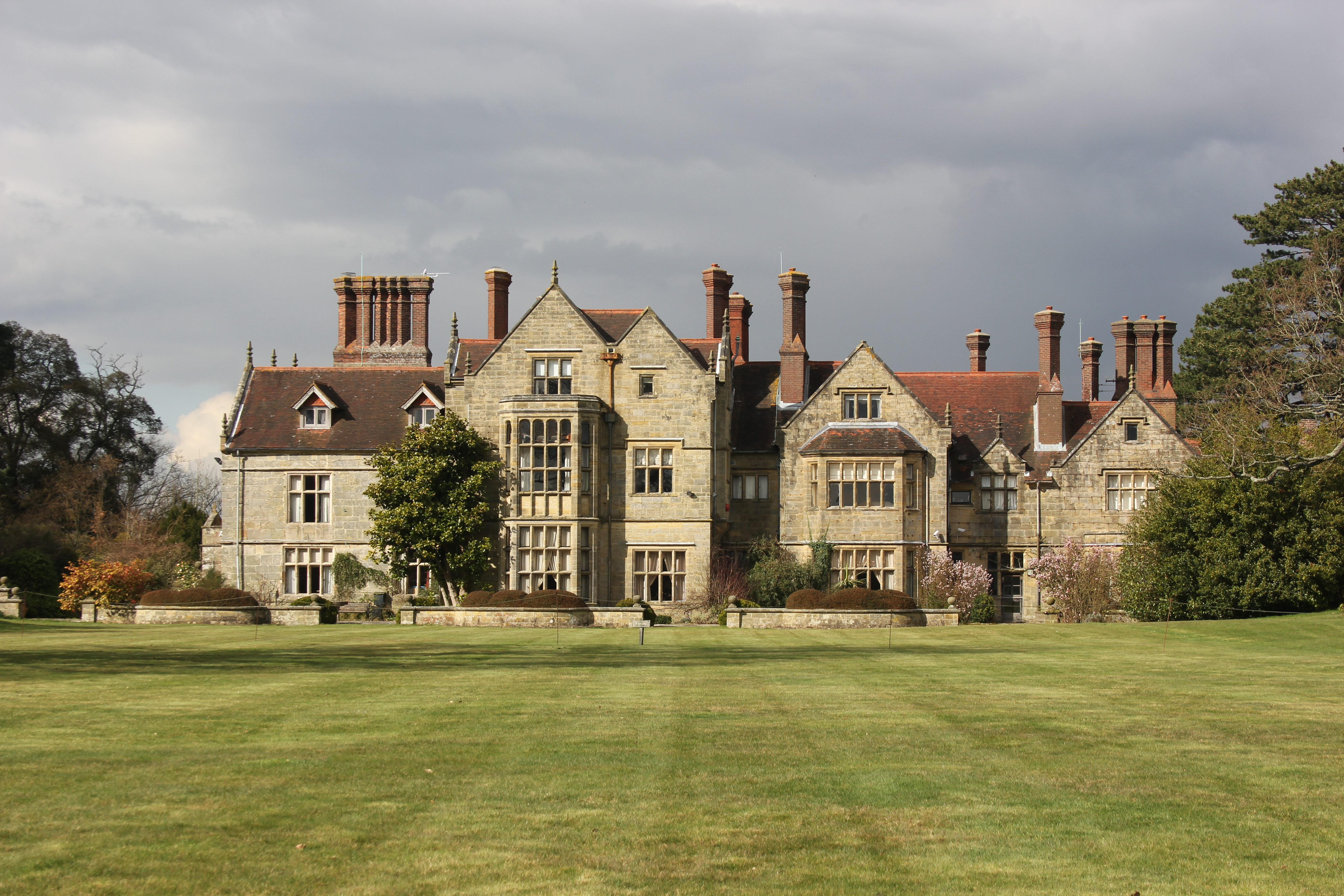 Taken on an overcast March afternoon, from the rear garden of the house.